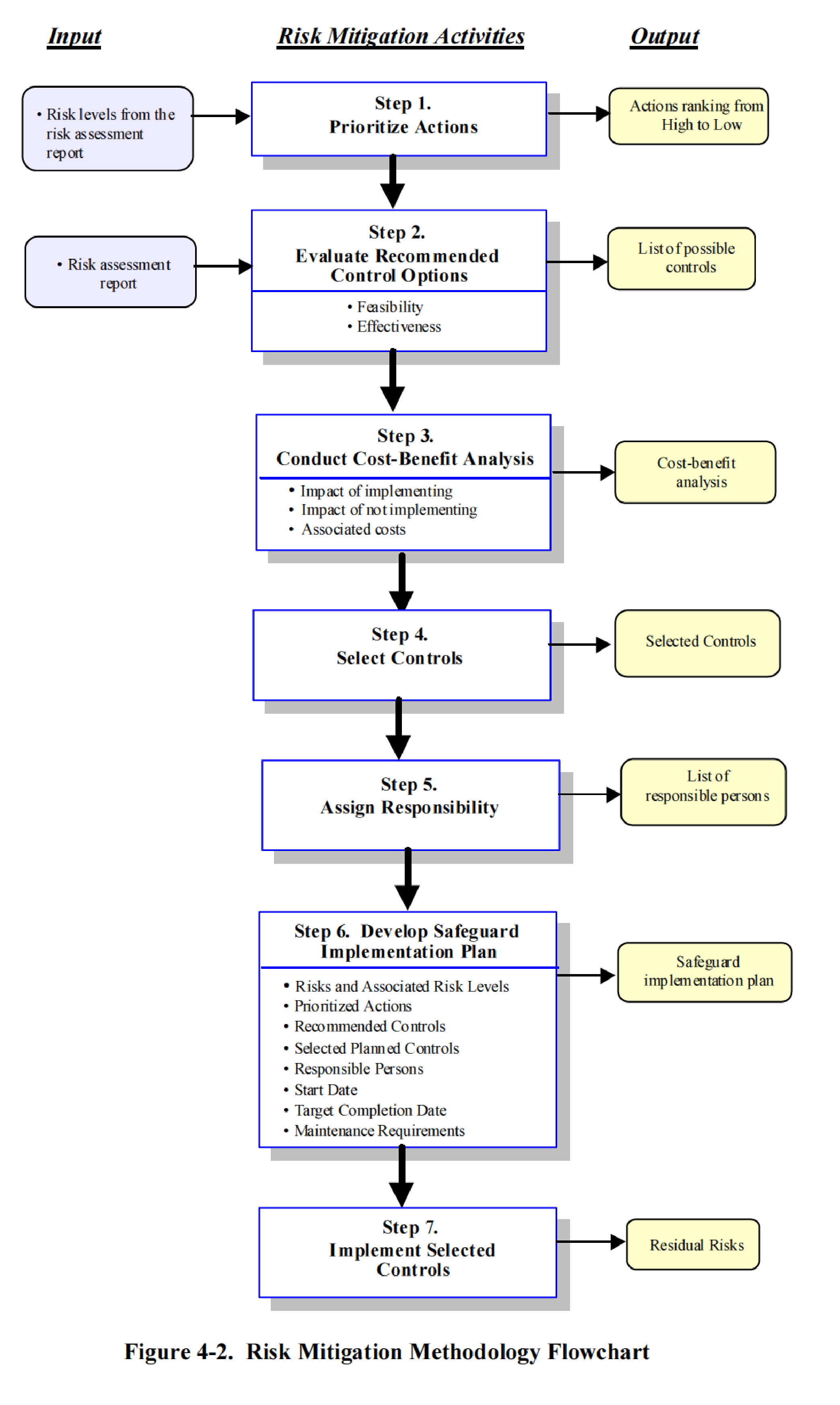 Figure 4-2. Risk Mitigation Methodology Flowchart, showing steps and their input and output